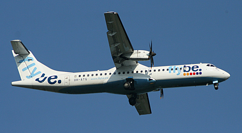 ATR-72-500 (airlines Flybe Nordic) landing at Vilnius International Airport (VNO) 2012-07-23 Model: 4CA687 Reg: EI-RJH Typecode: RJ85 Type: Avro RJ85 Serial number: E2345 Airline: CityJet